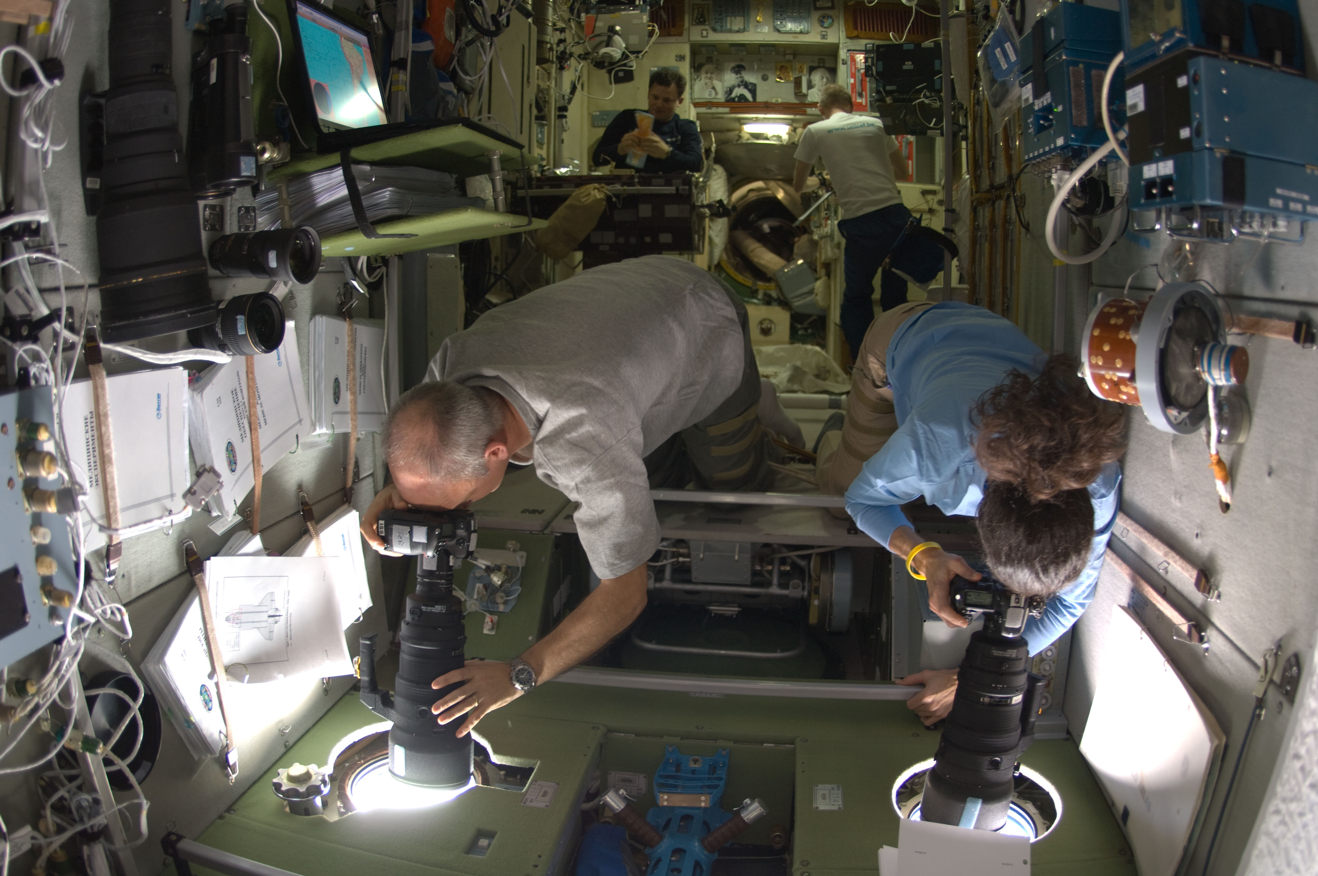 NASA astronauts Jeffrey Williams and Nicole Stott, both Expedition 21 flight engineers, use still cameras at windows in the Zvezda Service Module of the International Space as Space Shuttle Atlantis approaches the station.